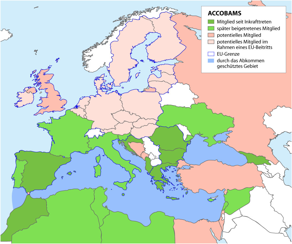 Map of the Parties of the ACCOBAMS (Agreement on the Conservation of Cetaceans of the Black Sea, Mediterranean Sea and Contiguous Atlantic Area)